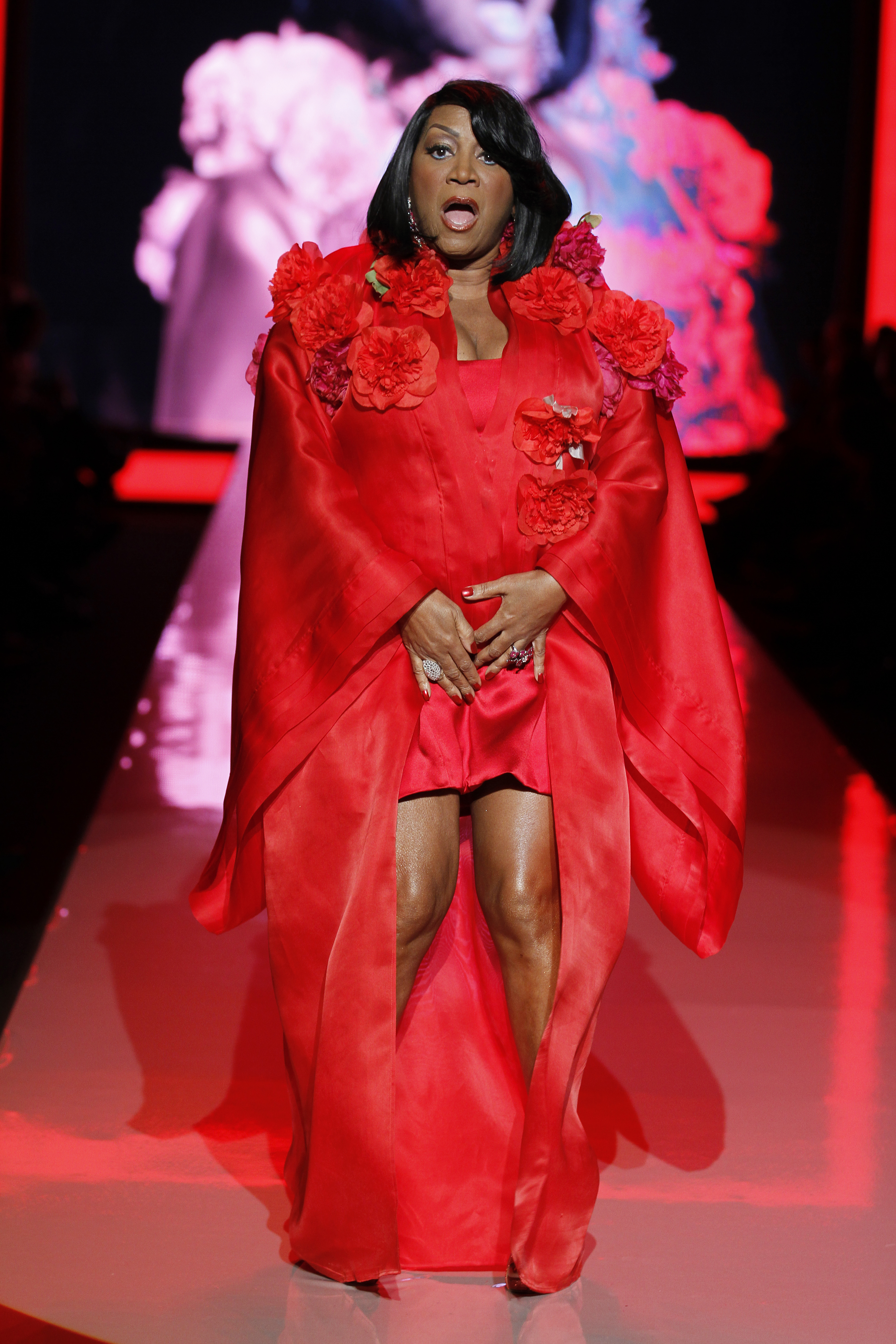 Patti LaBelle in Zang Toi at The Heart Truth’s Red Dress Collection Fashion Show, 2011